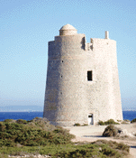 Defense Tower of Ses Portes, Eivissa island, Spain